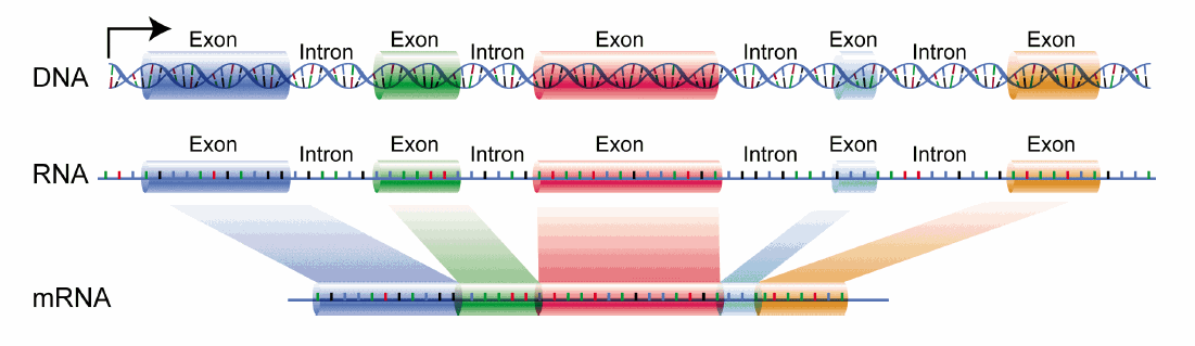 DNA, exons and introns